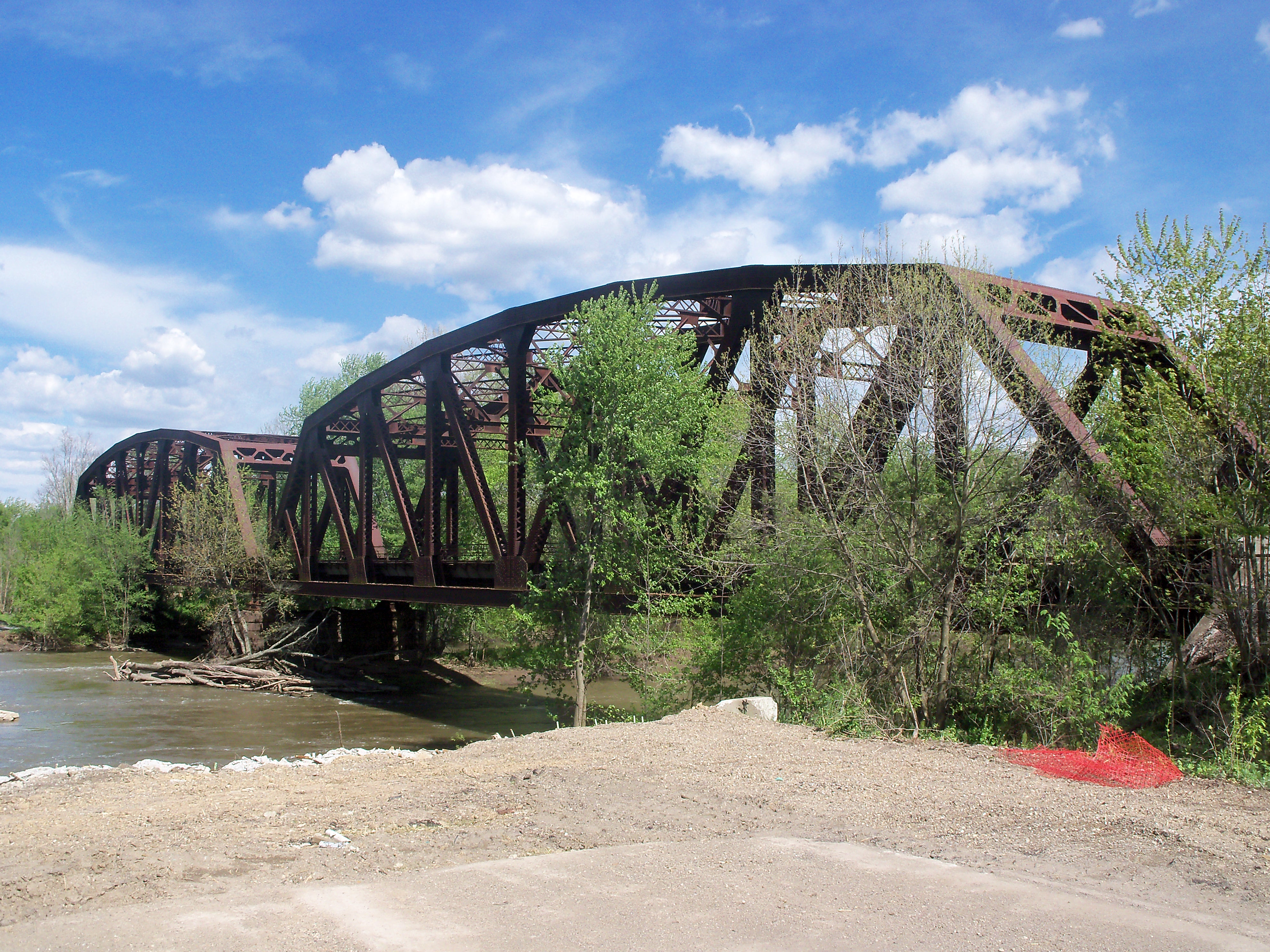 Parker through-truss rail bridge over Tuscarawas, River near Gnadenhutten, Ohio owned by Columbus and Ohio River Railroad. U.S. Route 36 bridge next to this one was demolished April, 2016. Photo taken from road surface of closed section of 36 on west side of river.